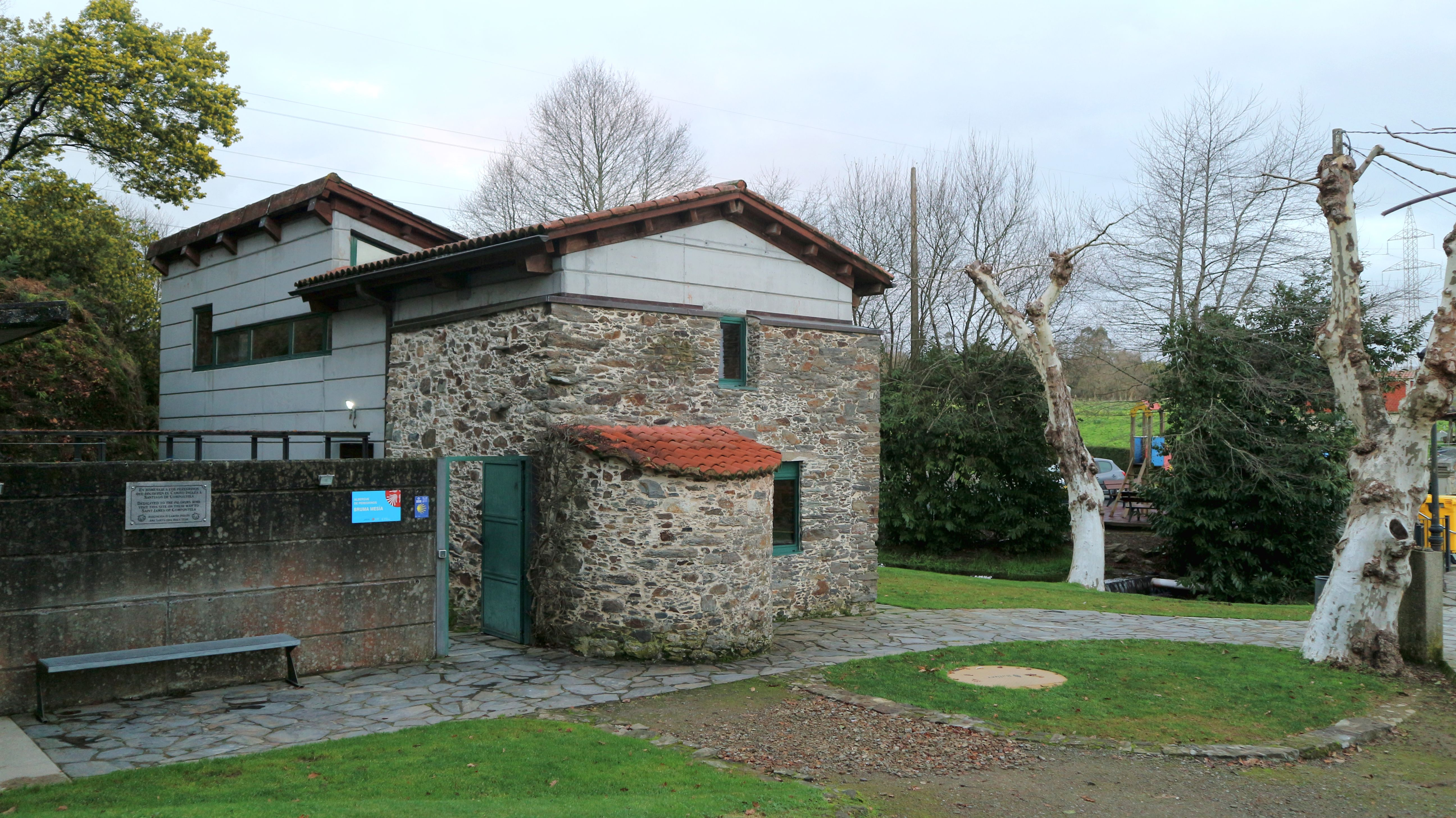 Antigo hopital e arestora albergue de peregrinos no Hospital, San Lourenzo de Bruma, Mesía (A Coruña).